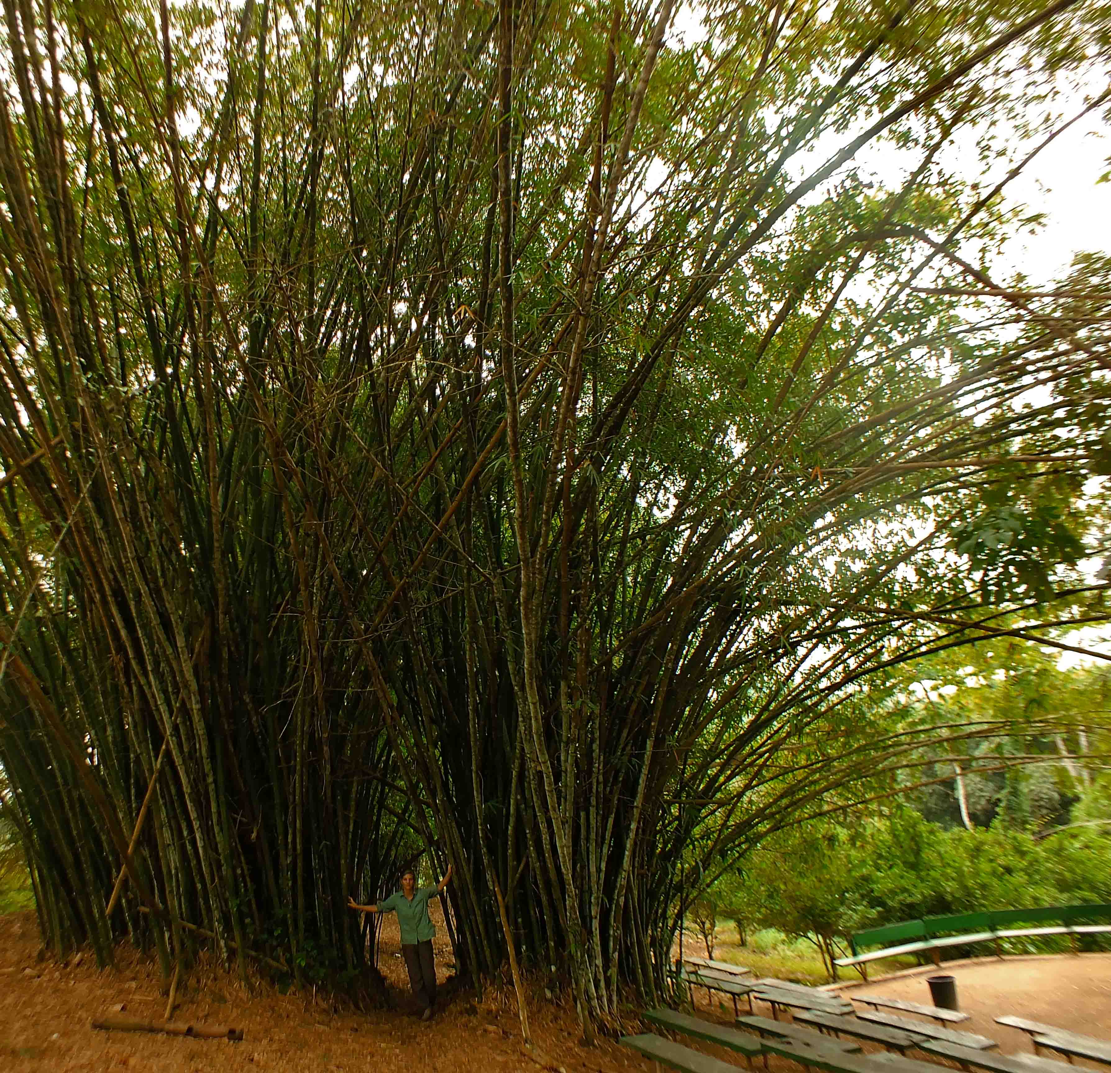 This is a file of Ghanaian Natural Heritage with ID